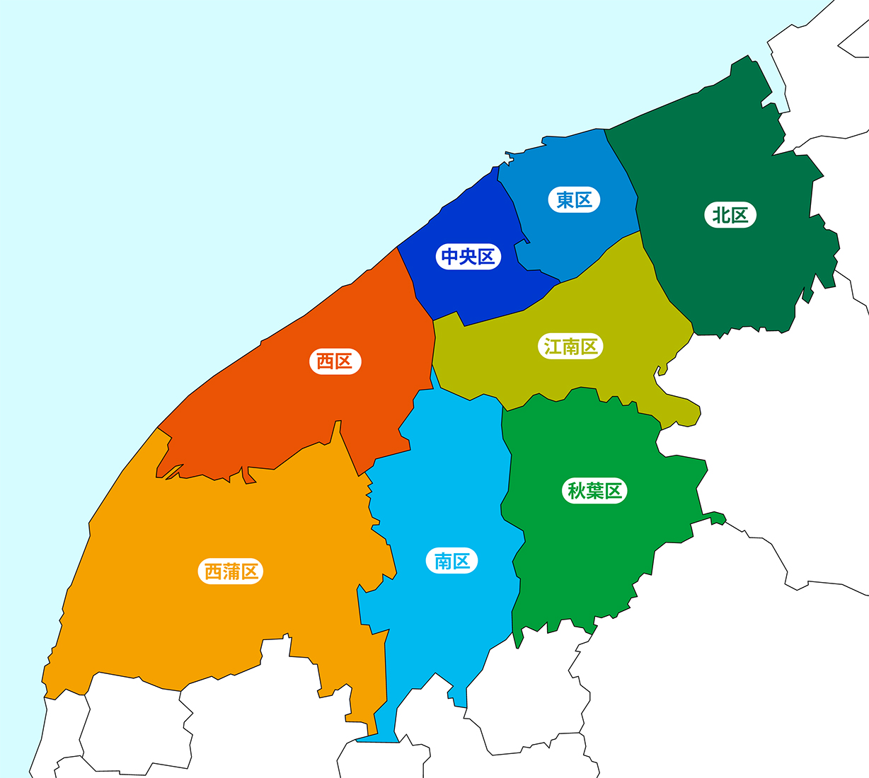 Wards of Niigata City.